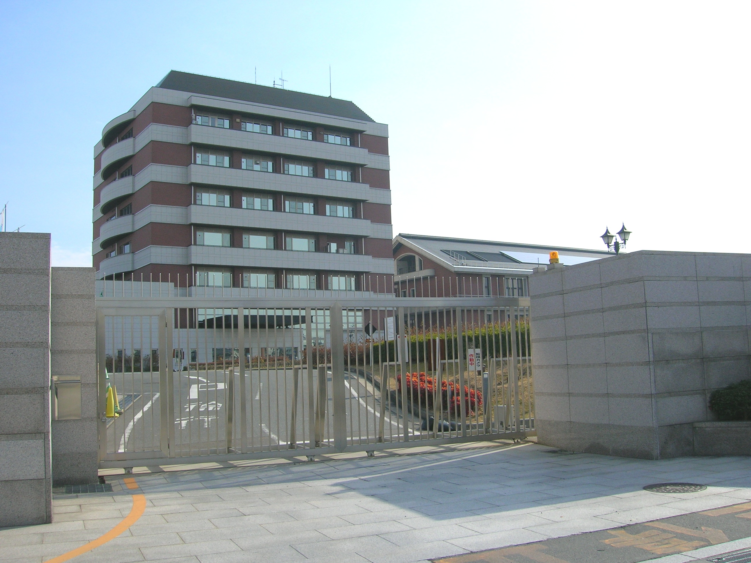 Nabeya-ueno Purification Plant. Loc: Chikusa-ku, Nagoya city, Aichi Prefecture, Japan. 鍋屋上野浄水場・正門から管理棟を見る。 撮影場所 愛知県名古屋市千種区